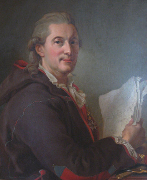 Chapman is wearing a Sami (Lappish) jacket and the knight cross of the Order of Sword.